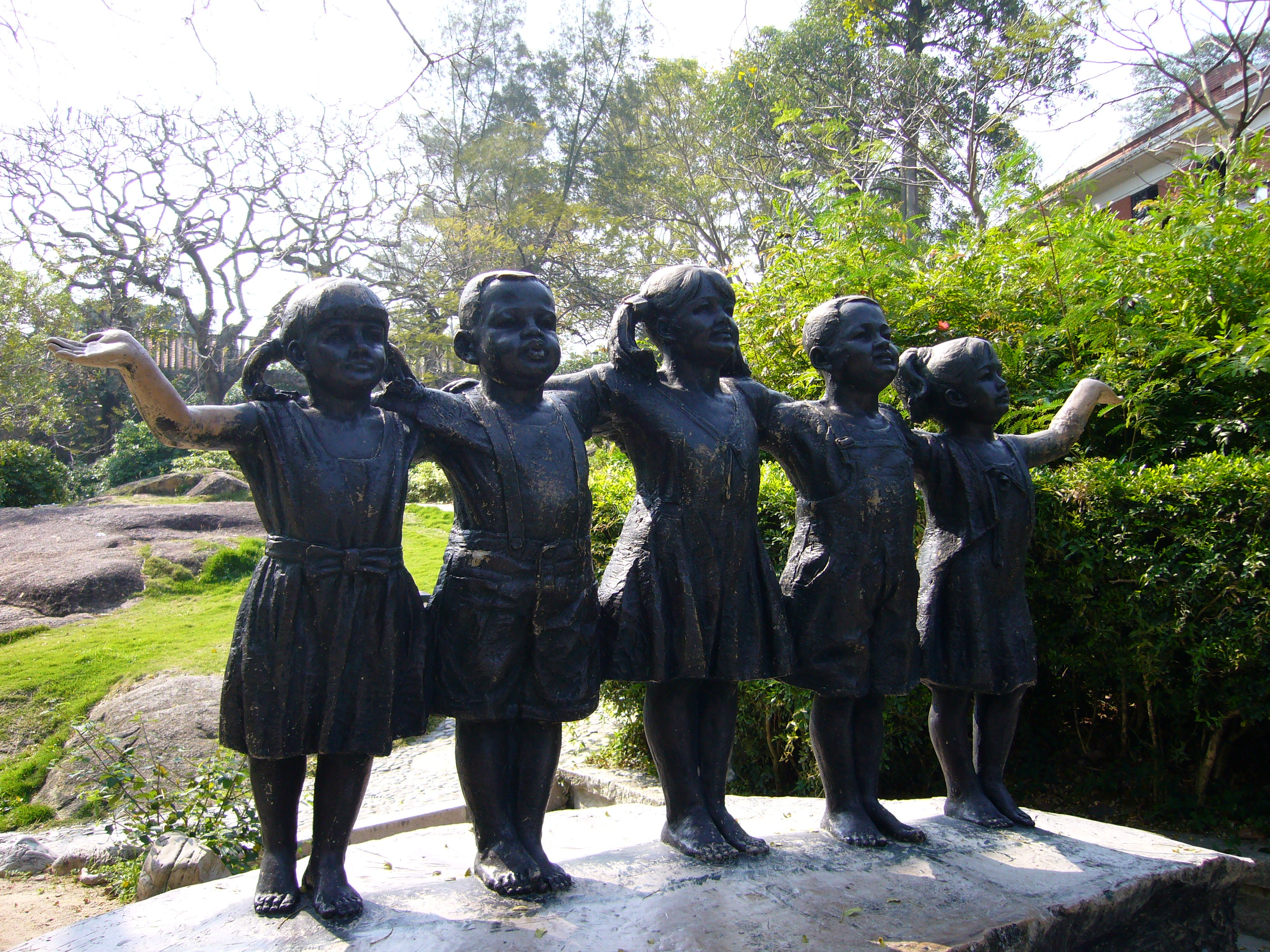 moument for dr Lin Qiao Zhi on Gulangyu Island